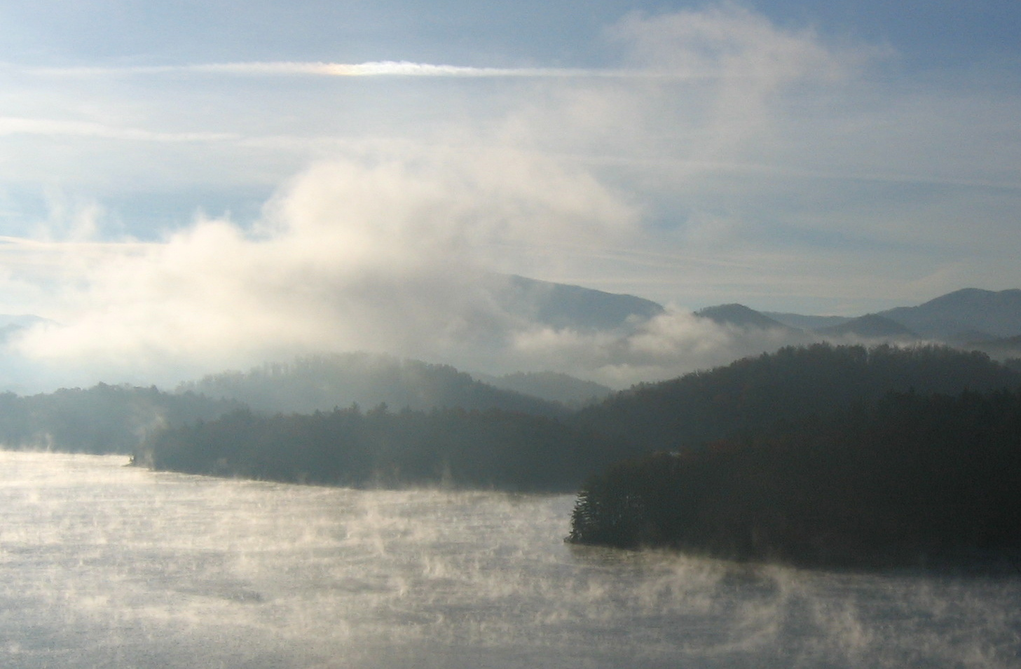 November morning sunrise on Lake Santeetlah, Graham County, North Carolina, USA